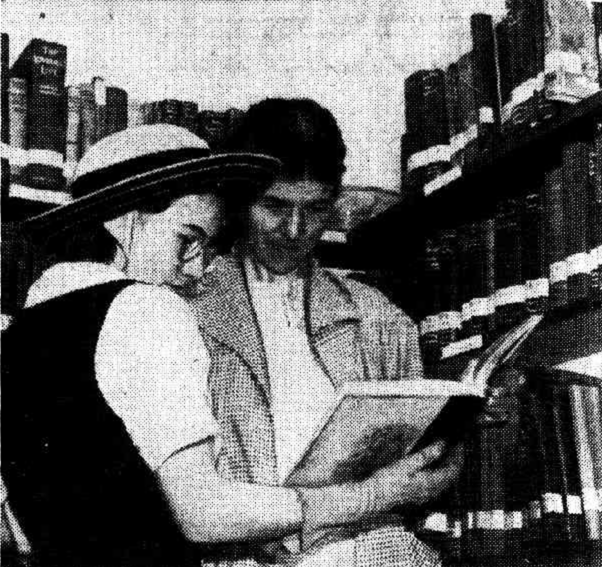 Bessie Thomas (1892-1968) founded a children's library in Mosman, Sydney